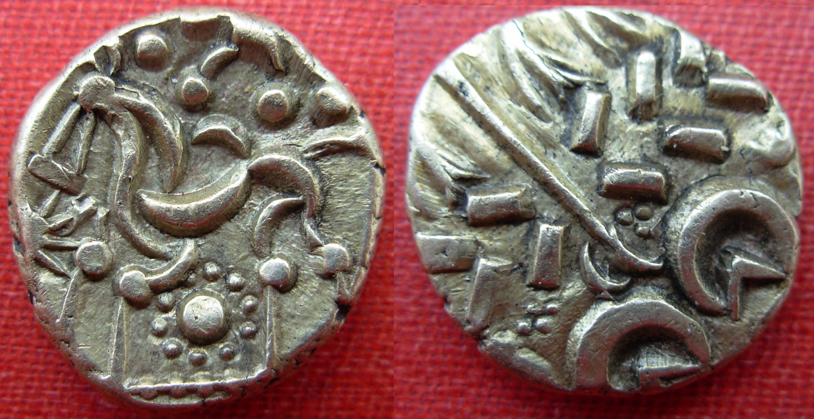 An electrum stater ('South Ferriby type') of the Corieltauvi tribe of the British East Midlands, mainly in Leicestershire and Nottinghamshire. The coin is around 30 percent gold with the bulk of the rest being silver and the balance copper. This coin was found near Boston in Lincolnshire and was very probably minted at the Iron Age mint at Sleaford around the middle of the first century BC. It was exceptionally well struck and saw almost no circulation and thus preserves the type in almost perfect original condition These coins depict a stylized horse on one side and a pattern of pellets on the other. The design represents copies of copies of copies of coins originally produced by Philip II of Macedon in the fourth century BC. The pellets were derived ultimately from the Macedonian ruler's hair. Guy de la Bédoyère